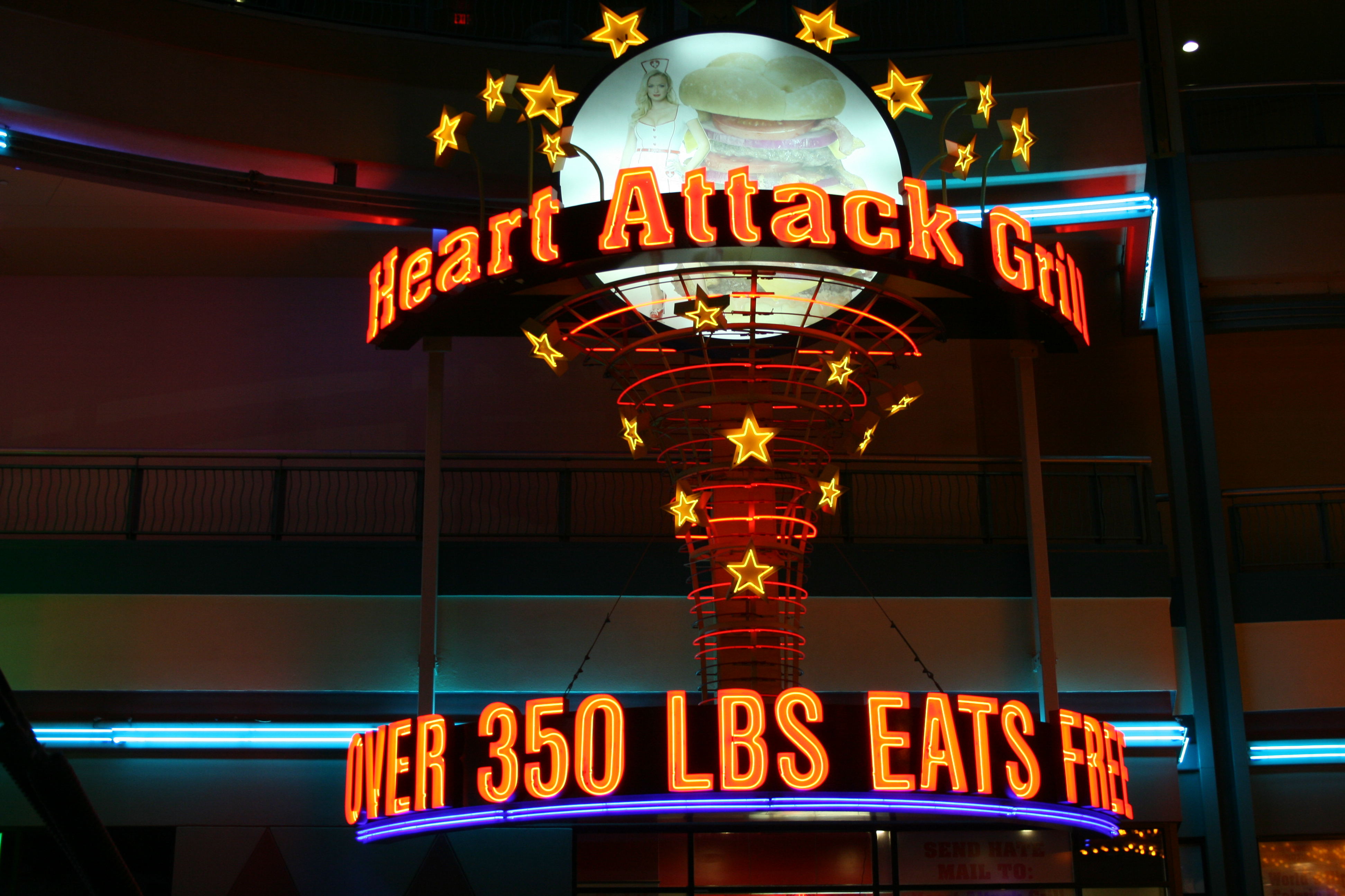 Logo of the Heart Attack Grill in Las Vegas, Arizona, USA. The architectural work depicted in this photograph may be covered under United States copyright law (17 USC 120(a)), which states that architectural works completed after December 1, 1990 are protected. However, architectural copyright in the United States does not include the right to prevent the making, distributing, or public display of pictures, paintings, photographs, or other pictorial representations of the work. See COM:CRT/United States#Freedom of panorama for more information. This law only applies to architectural works (such as buildings or other structures) and not other forms of 3D or 2D artwork such as sculptures, paintings, or posters. Images of these artworks taken in the US must be deleted unless they are in the public domain, or their presence is incidental.